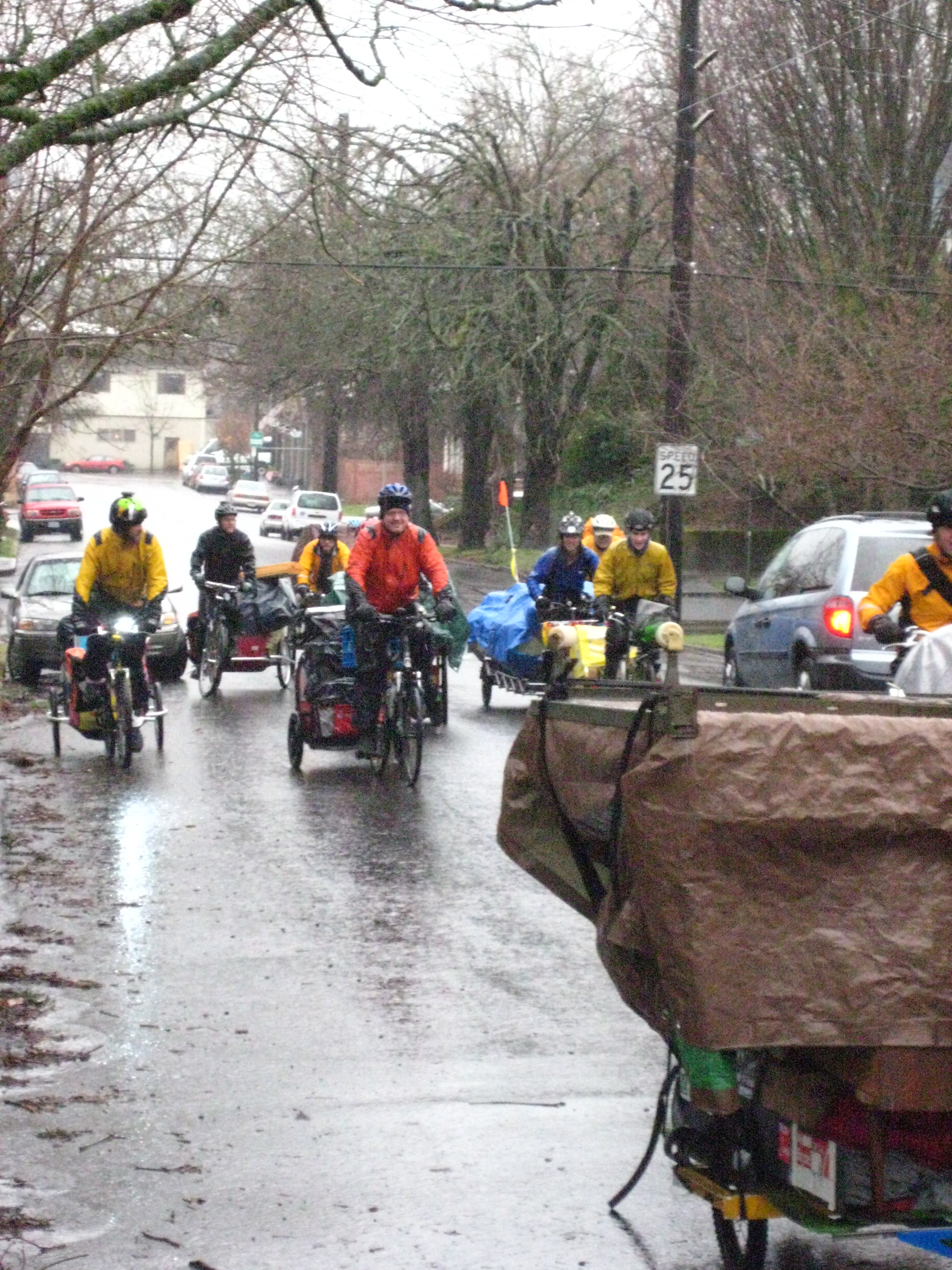 Bicyclists in Portland, Oregon, brave the rain to help each other move by bike.